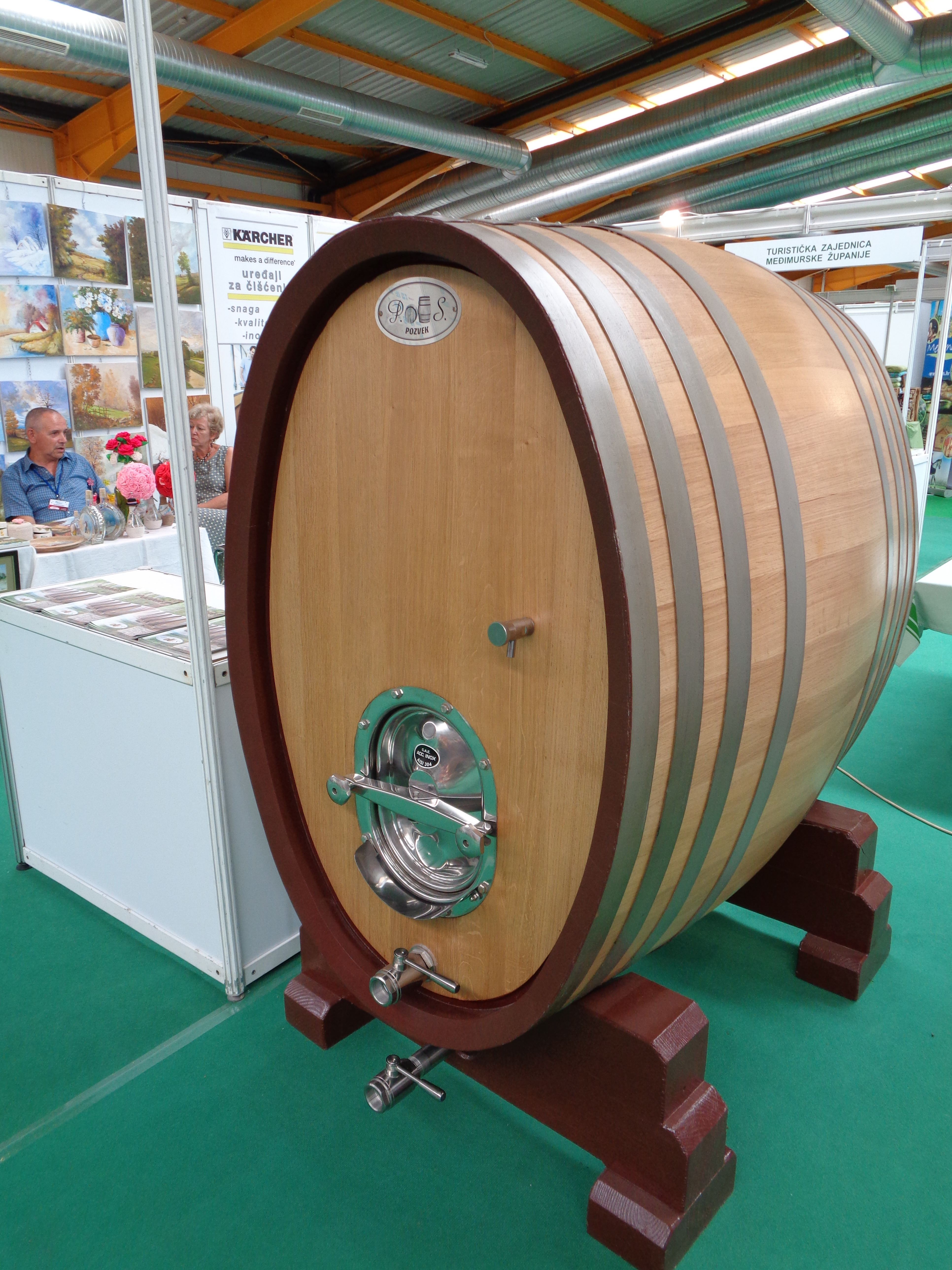 MESAP 2015. trade fair in Nedelišće, Medjimurje County, Croatia - wooden wine barrel